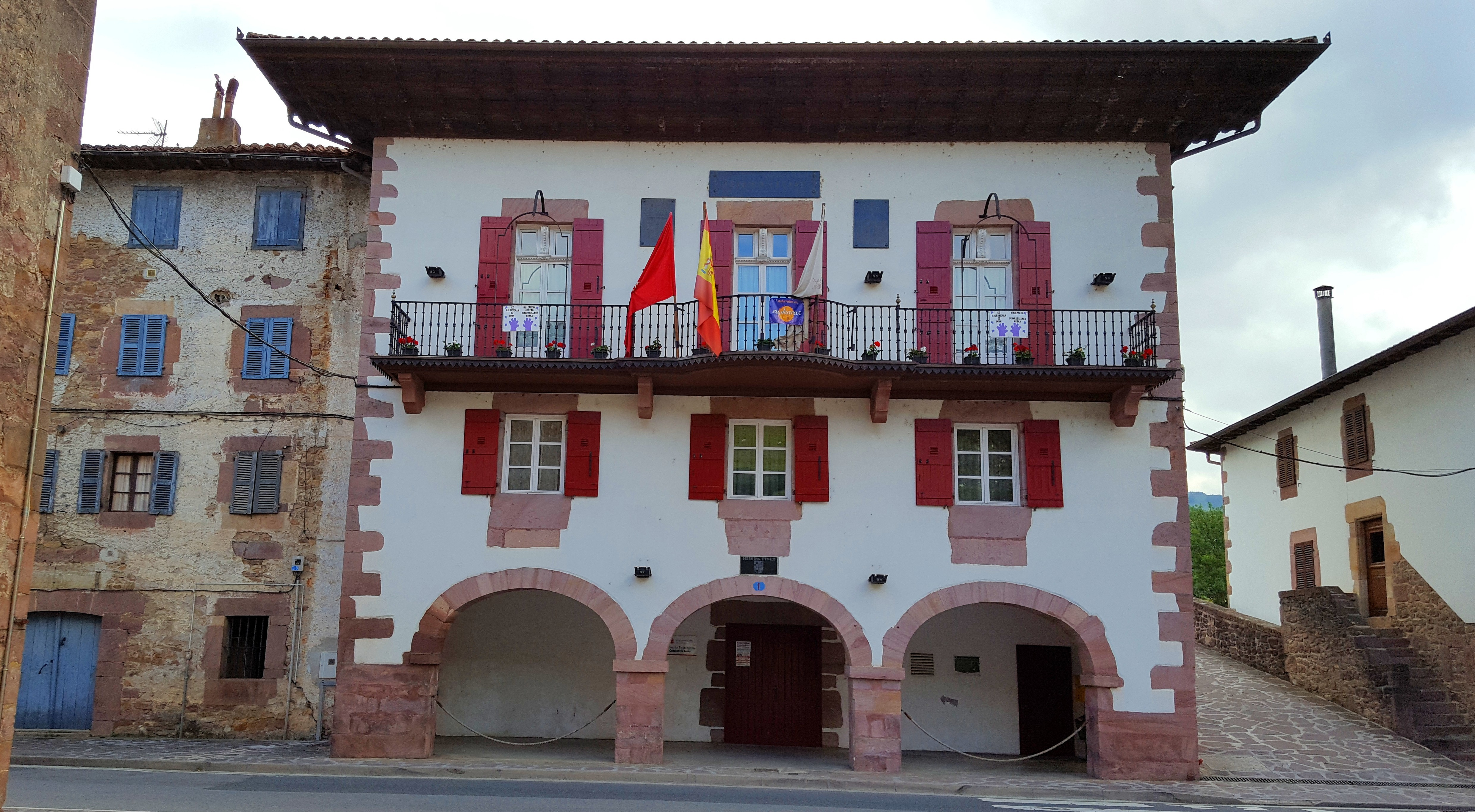 Town hall of Sunbilla (Navarre)